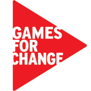 Created for the rebranding that was announced on June 20, 2011